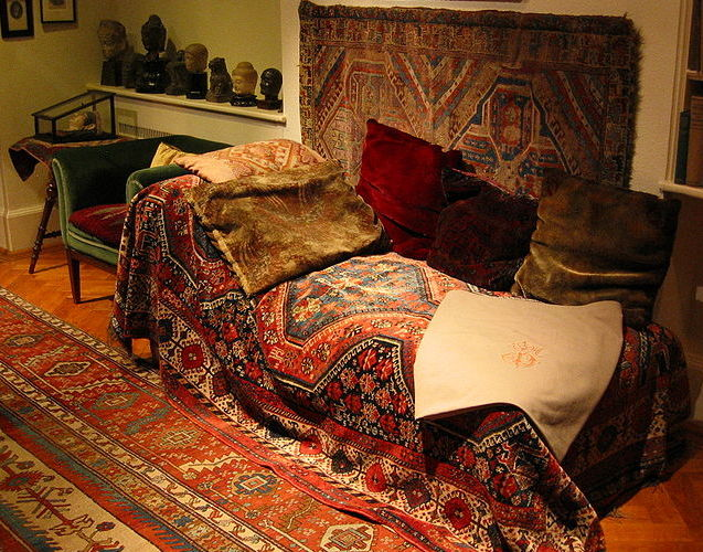 Sigmund Freud's Couch